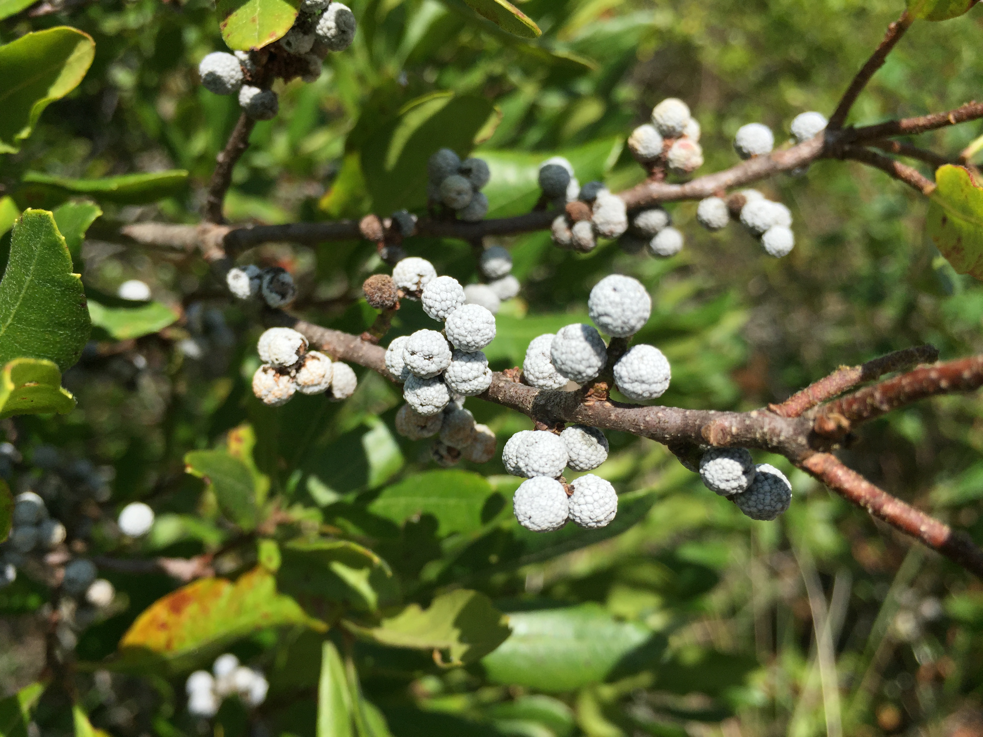 Northern Bayberry fruit along the sand road leading to Barnegat Inlet within the Southern Natural Area of Island Beach State Park, in Berkeley Township, Ocean County, New Jersey